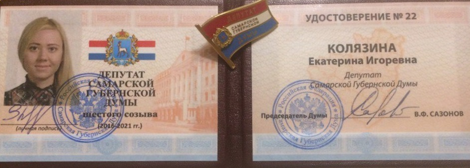 Identity cards of the Deputy of the Samara regional Duma of the 6th convocation (2016-2021 y.)